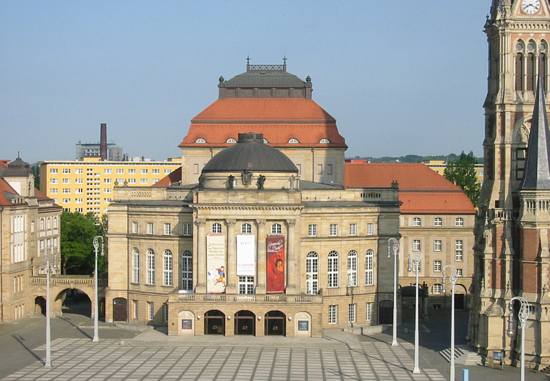 Chemnitz, Germany: Opernhaus am Theaterplatz